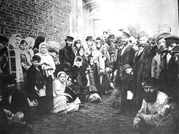 Jewish refugees from Russia at port of Liverpool, 1882